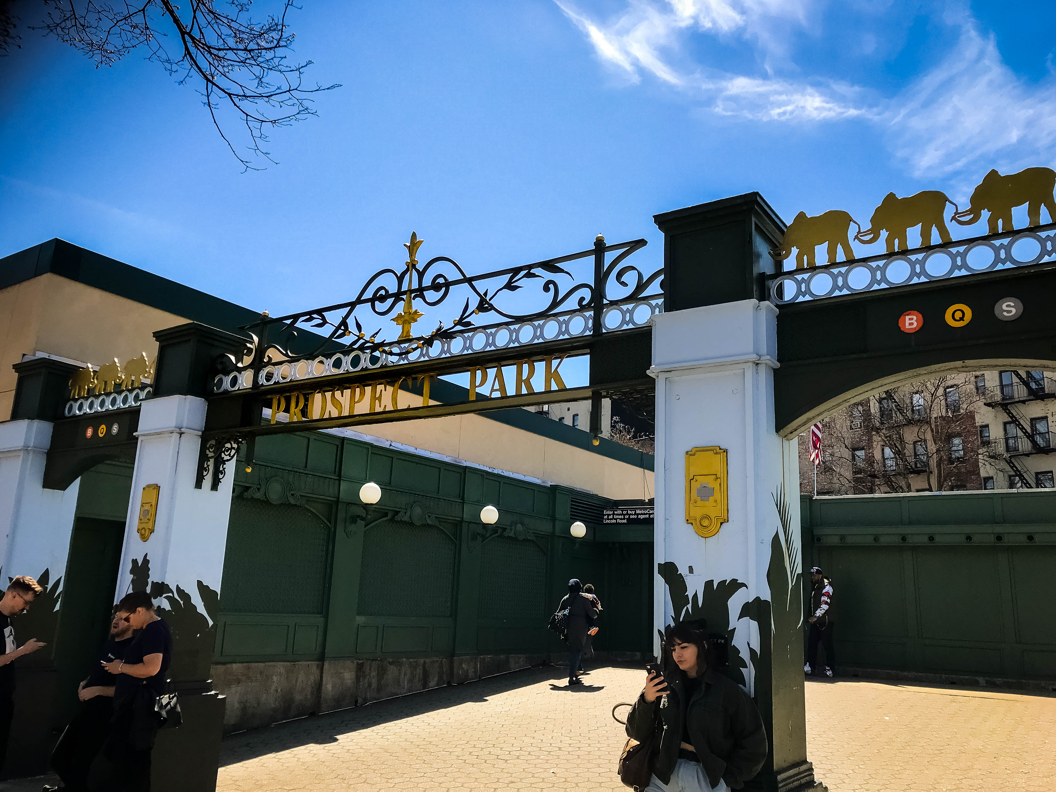 New York - Brooklyn